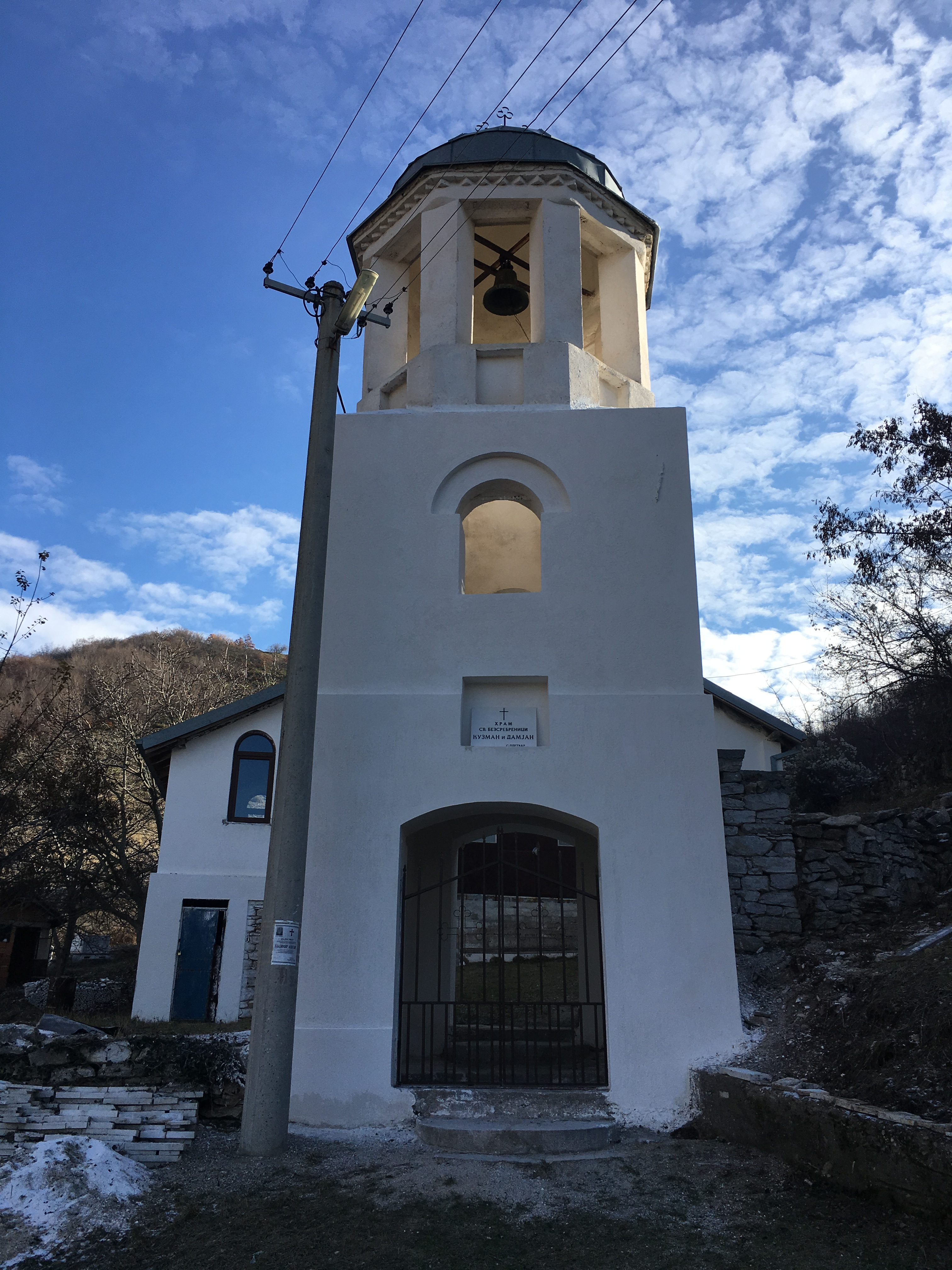 Ss. Cosmas and Damian Church in the village of Pletvar